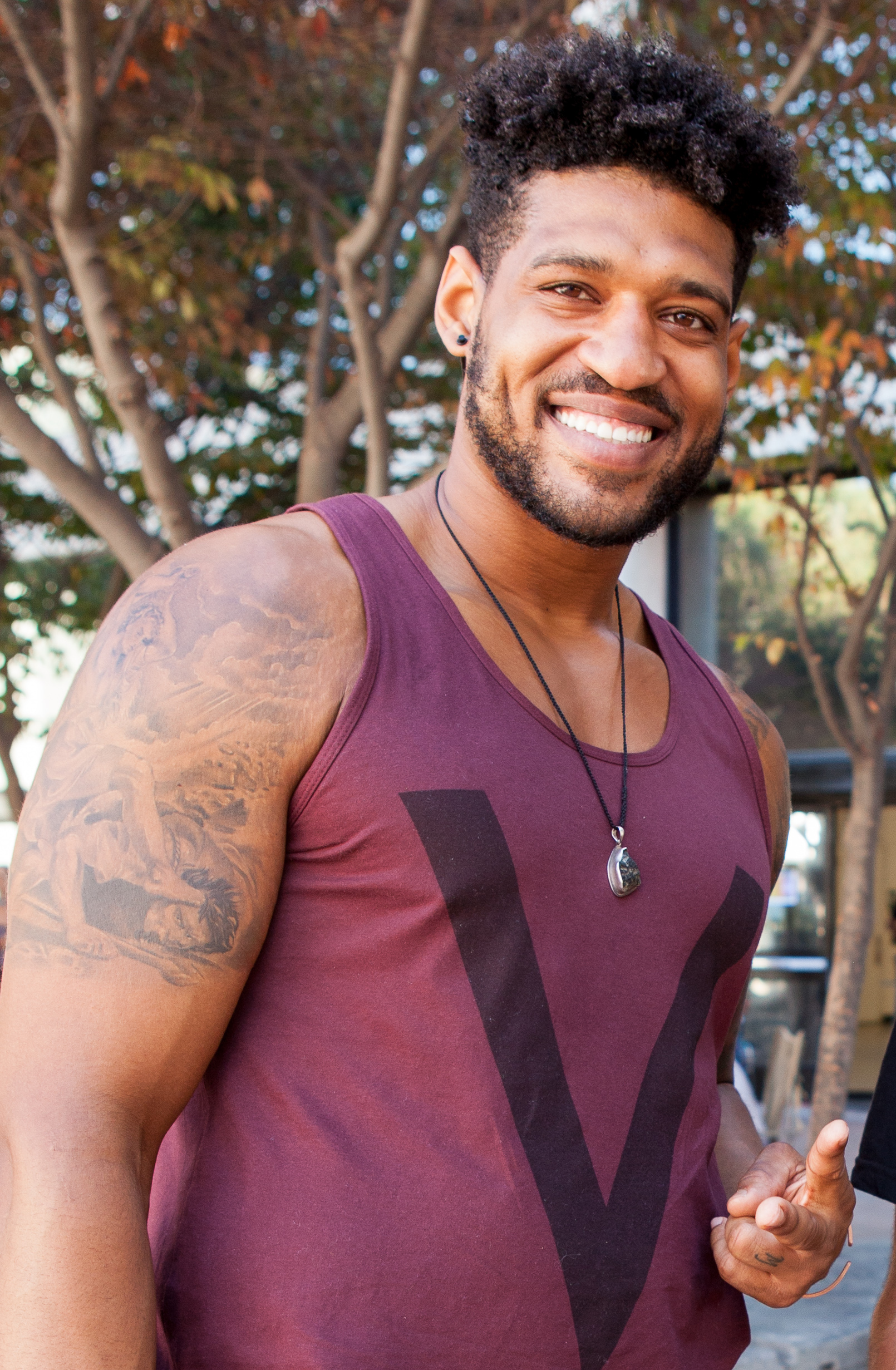 David Carter at the Vegan Soul Wellness Festival in Oakland, California, September 2016.